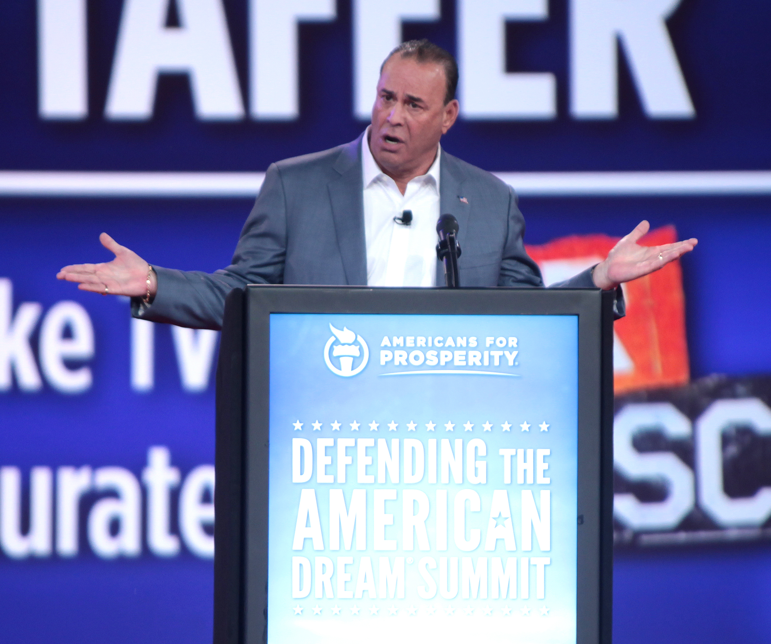 Jon Taffer speaking at the 2015 Defending the American Dream Summit at the Greater Columbus Convention Center in Columbus, Ohio.